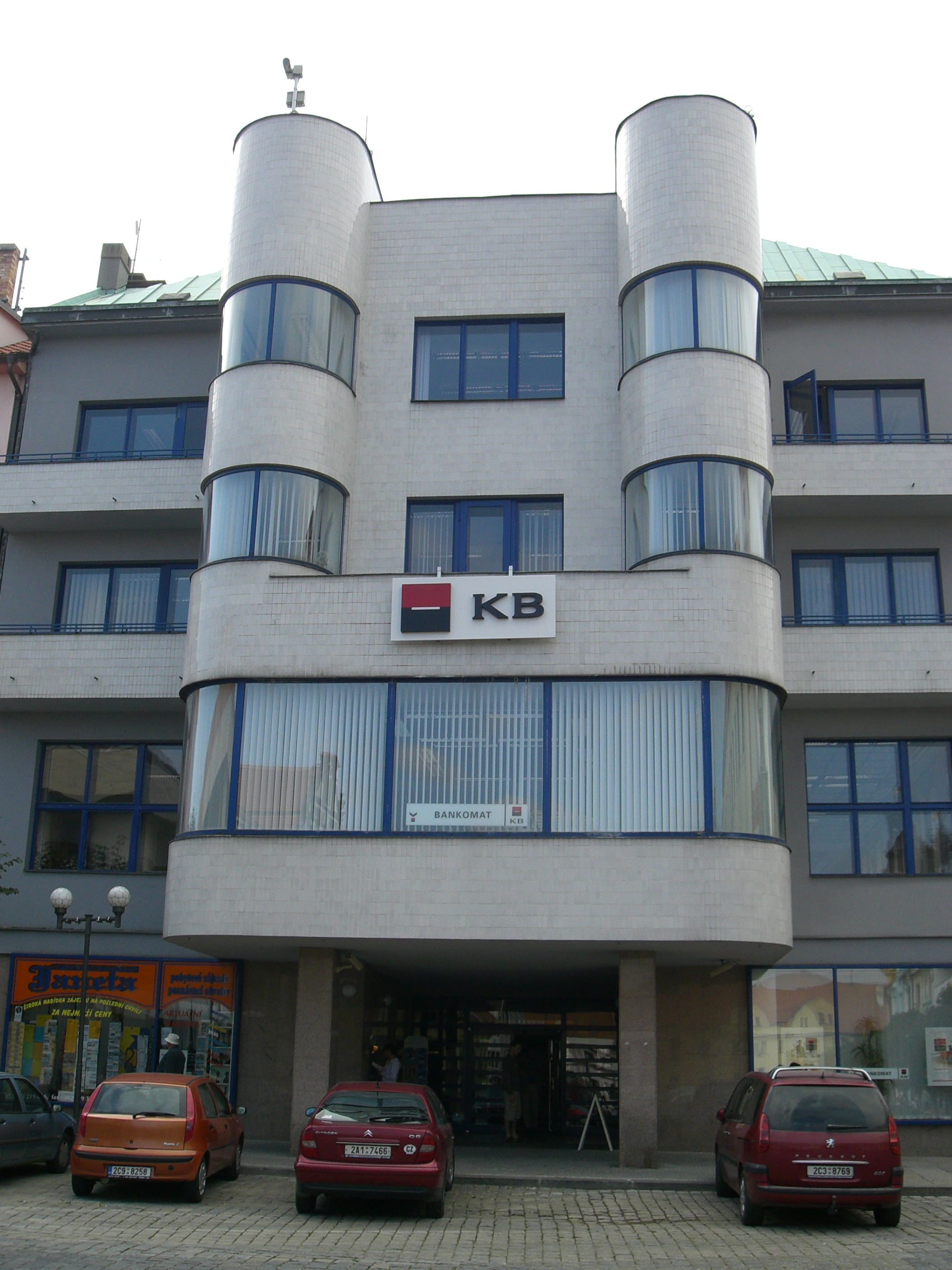 Komeční banka (KB) in Písek. Czech Republic.